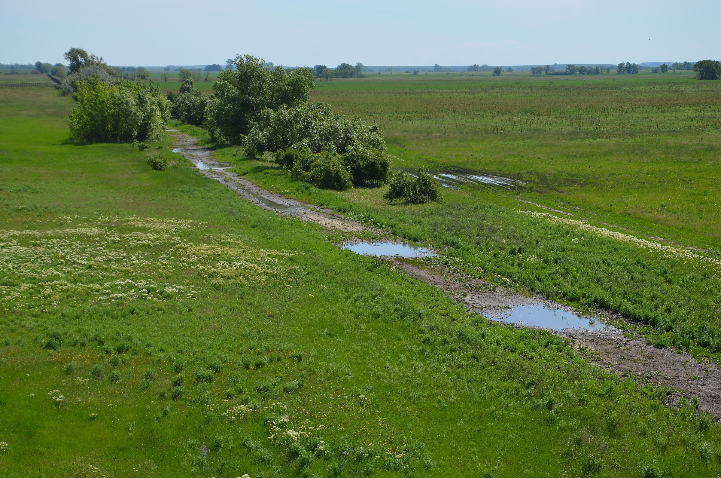 The Dévaványa-Ecseg Steppes